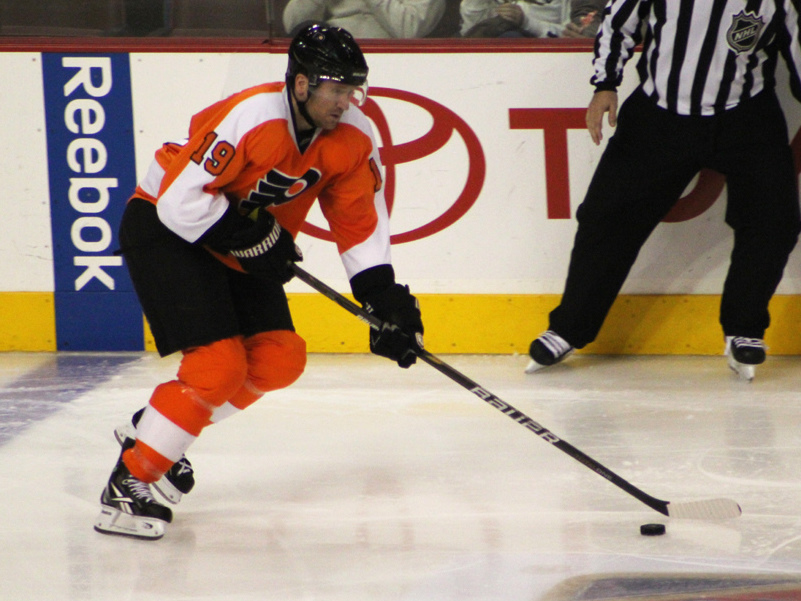 Philadelphia Flyers forward Scott Hartnell during a game against the New York Islanders on October 30, 2010.